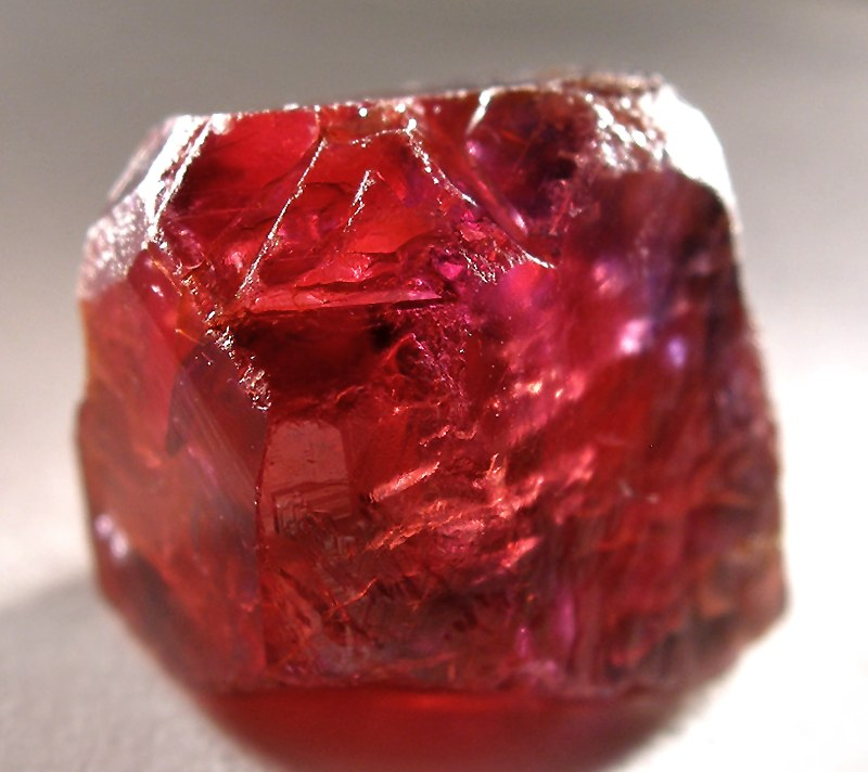 Corundum Locality: Winza, Mpapwa, Mpapwa (Mpwampwa) District, Dodoma region, Tanzania (Locality at ) Size: thumbnail, 1.3 x 1.3 x 1.1 cm RUBY This is a rather equant, glassy and gemmy, rose to cherry red, doubly terminated, ruby crystal. The color is very close to the pigeon�s blood red, found in rubies. Only contacted at the bottom. This is a SUPERB loose ruby crystal of really quite good lustre and form compared to rubies from any other locality. For this particular deposit, it is more pure red, and more gemmy, than most crystals of this size. It should have a considerable gem rough value within. 25 carats. photos do NOT do this crystal justice!